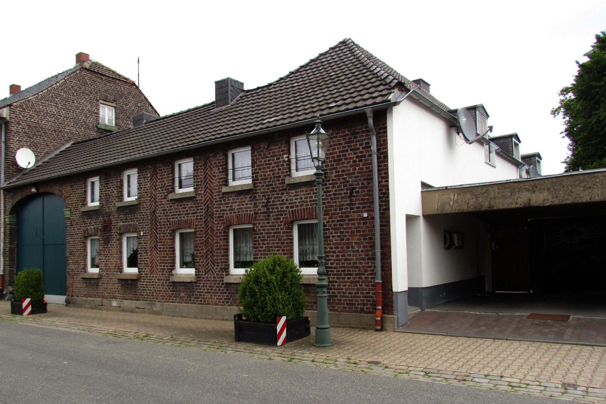 This is a photograph of an architectural monument.It is on the list of cultural monuments of Korschenbroich